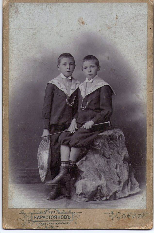 The sons of colonel Dimitar Marinov – Boris (later colonel) and Asen (later captain) in 1904